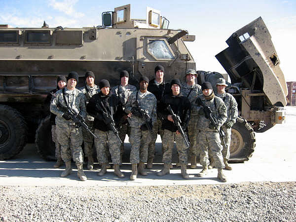 This Caiman MRAP protected 11 soldiers from a road side bomb in Iraq. The vehicle shows several hits by fragments including ones that 1) removed the passenger side door handle, 2) put a large hole through the hood and air filter, 3) deflated several (run-flat) tires, 4) removed the storage boxes on the sides of the vehicle above the tires, and 5) removed the fuel tank, which before blast would've been visible between the legs of the soldiers under the door. The passenger window seems to have taken a beating (and stayed intact) too.